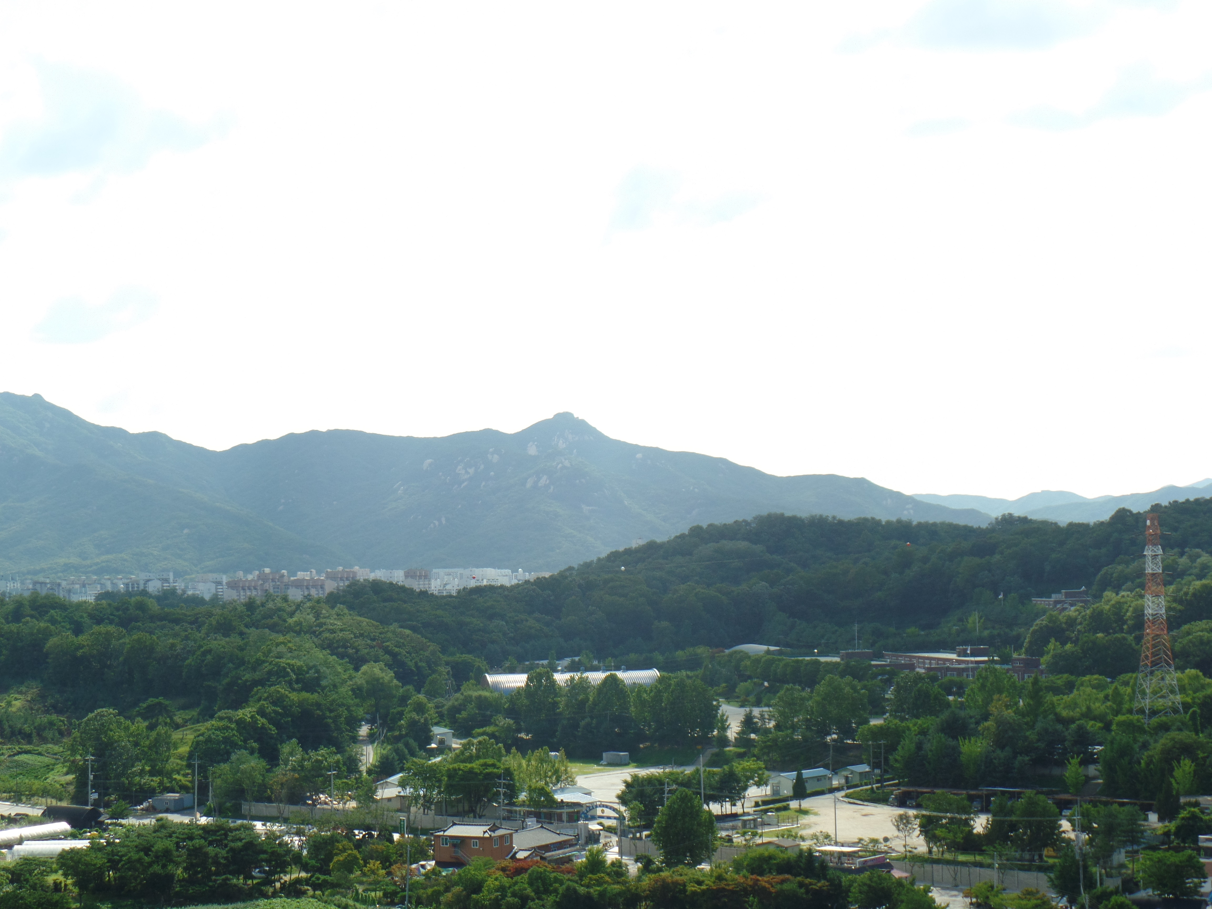 Scenery of ROKA 306nd Replacement Battalion 01